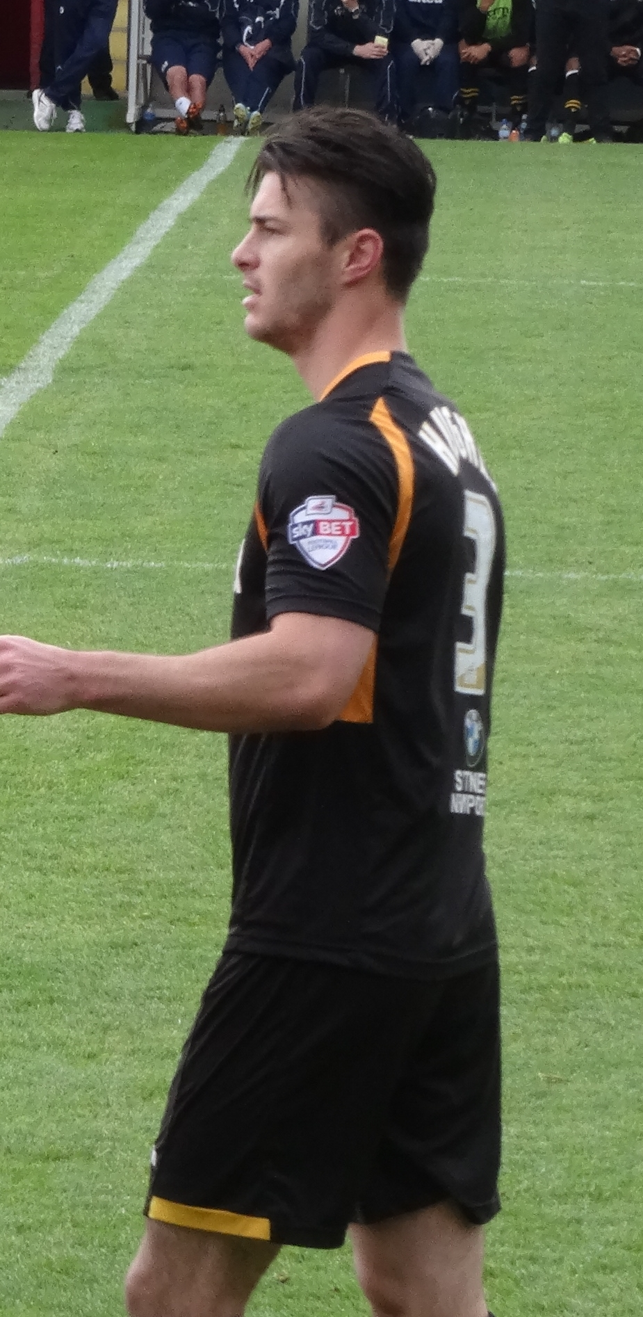 Andrew Hughes playing for Newport County against York City at Bootham Crescent, York on 26 April 2014